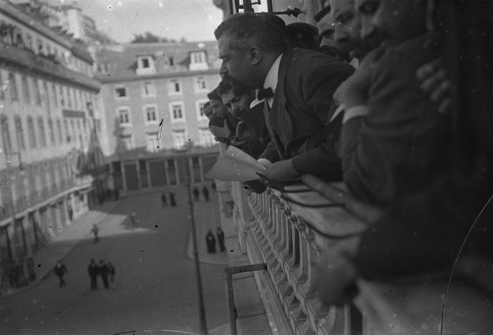 Inocêncio Camacho announces the names of the ad hoc cabinet, after the Proclamation of the Portuguese Republic, 5 October 1910.